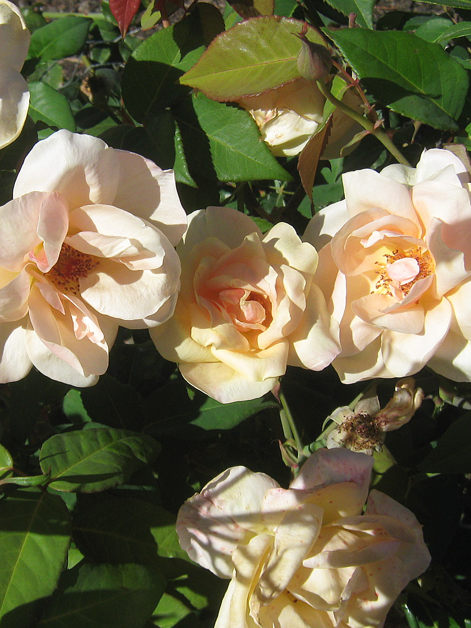 Rose Baxter Beauty sport of Loraine Lee by Alister Clark 1934 found at Baxter NSW